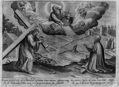 1612 engraving from the series the life of San Ignacio de Loyola, Jean LeClerc